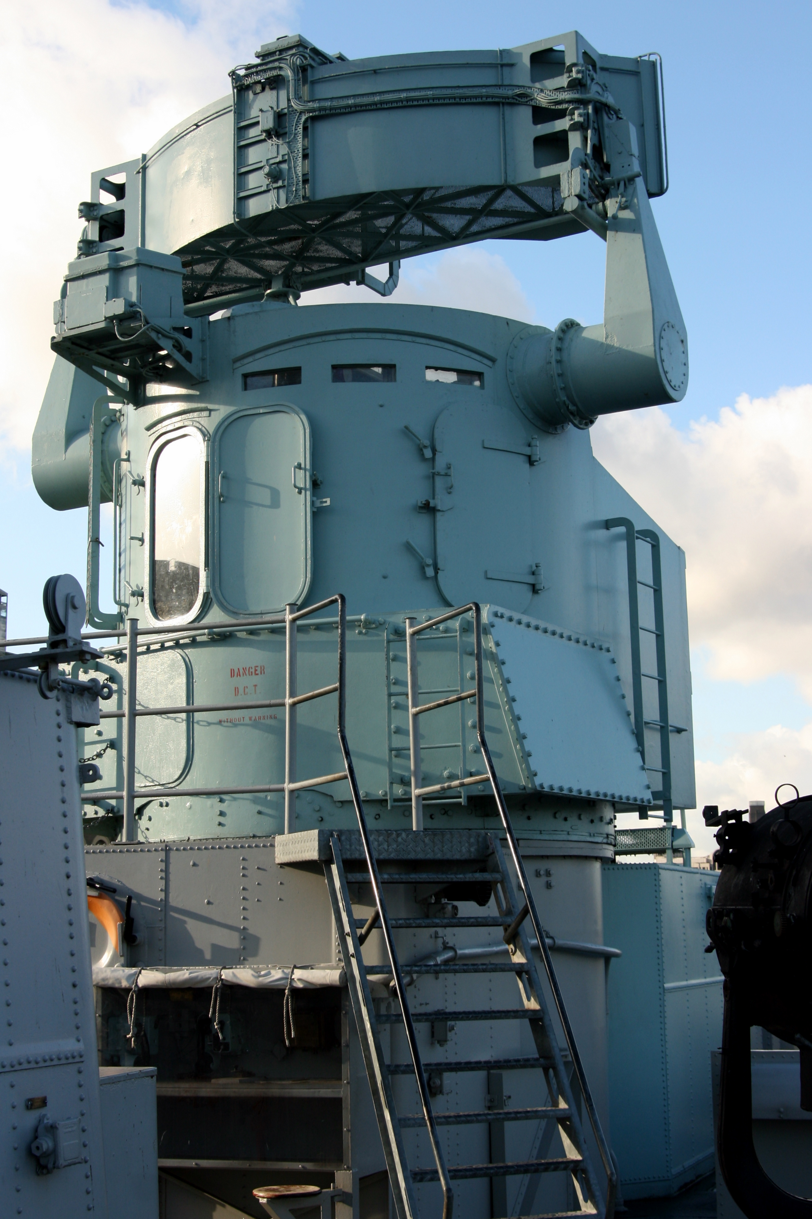 Gun direction platform on HMS Belfast, with the main telemeter housing.